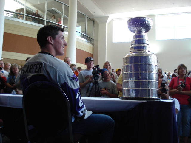 Ryan Carter with the Stanley Cup in MankatoDSC00922